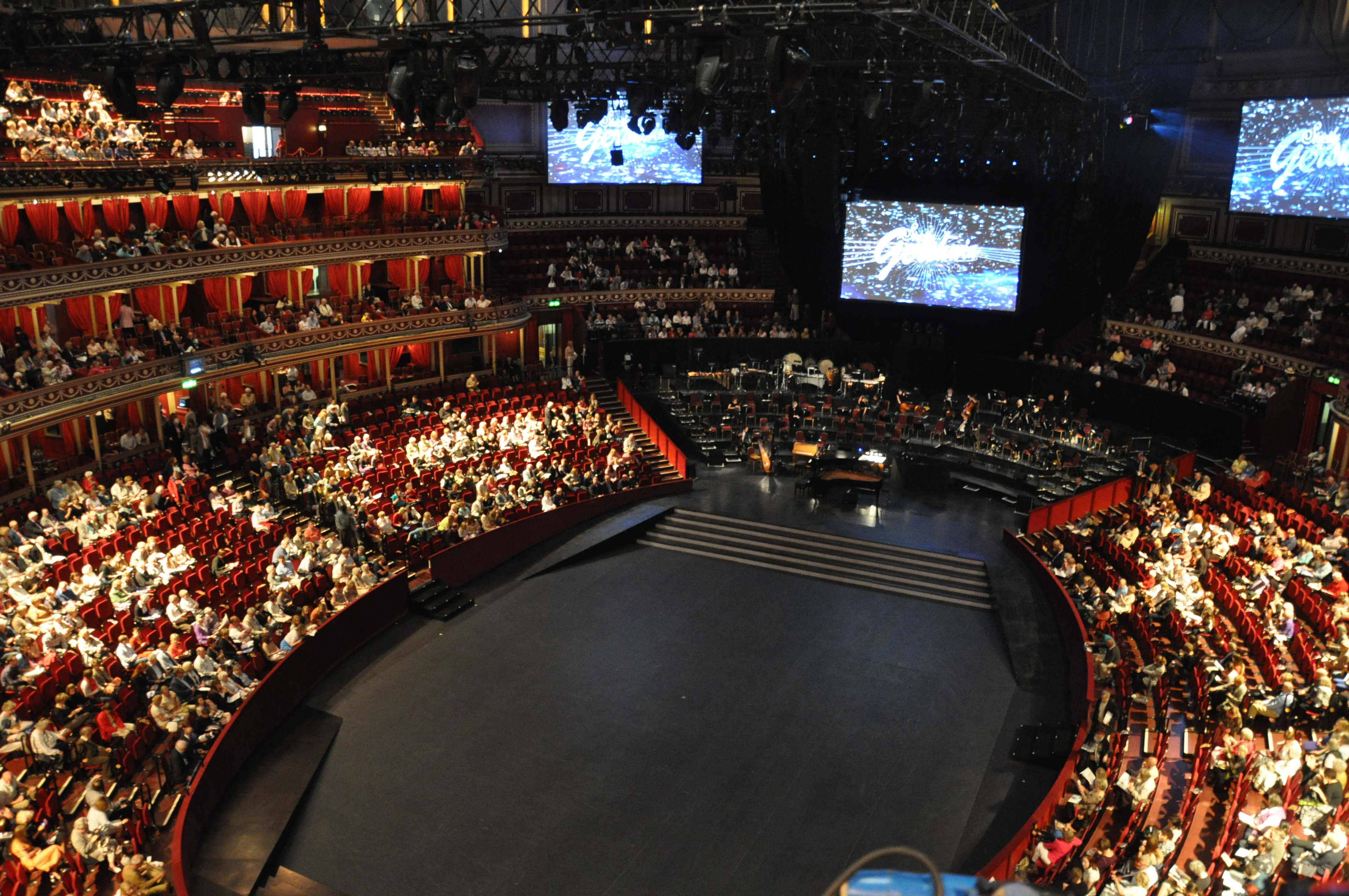 London, Royal Albert Hall interior